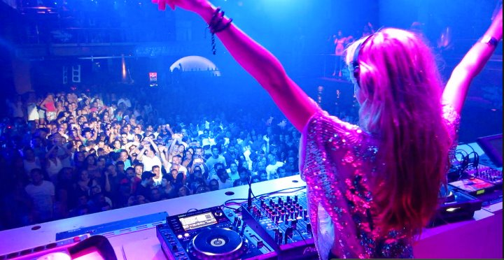 Kate Elsworth performing at Amnesia, Ibiza 2011